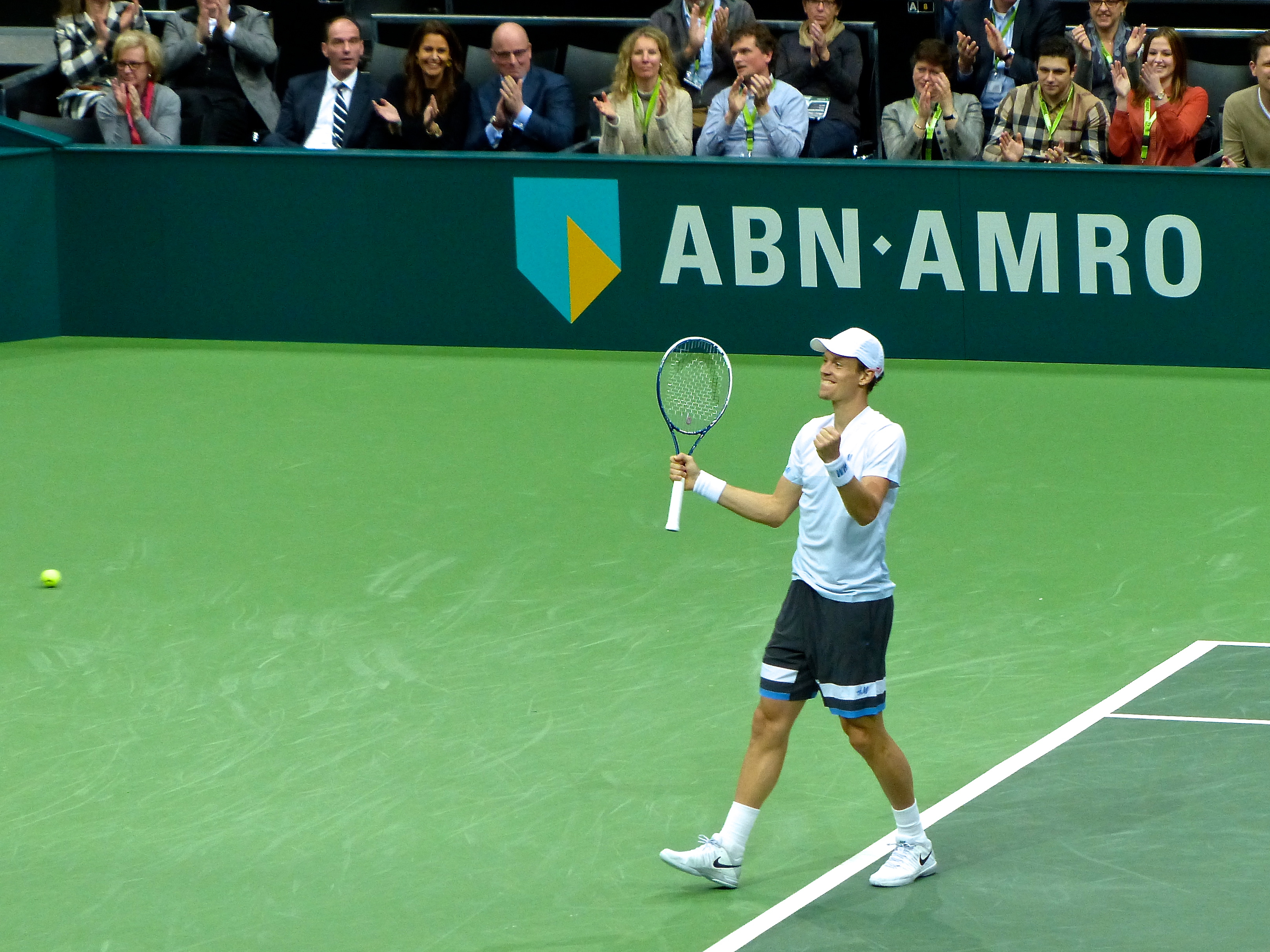 Tomas Berdych winning the ATP 500 Rotterdam Tennis Tournament.